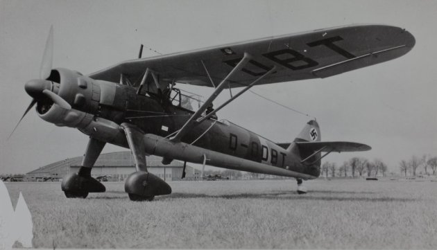 Henschel Hs. 126 PictionID:38236826 - Catalog:Array - Title:Array - Filename:15_002339.TIF - -------Image from the Charles Daniels Photo Collection.----Album: German Aircraft.-----------PLEASE TAG these images with any information you know about them so that we can permanently store this data with the original image file in our Digital Asset Management System.-----------------SOURCE INSTITUTION: San Diego Air and Space Museum Archive